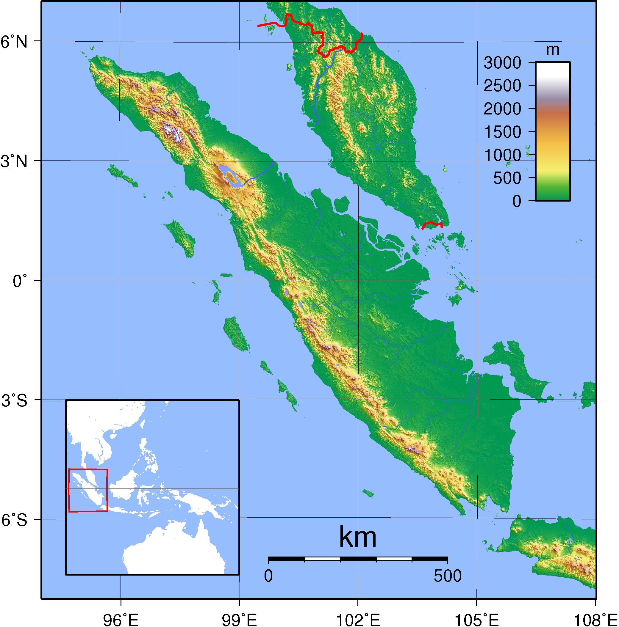 Topographic map of Sumatra. Created with GMT from publicly released SRTM data. For locator vesion, see Image:Sumatra Locator Topography.png